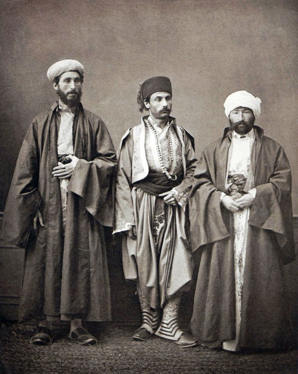 (1. right) hodja from Salonica; (2. left) haham-bashi (chief rabbi) of Salonica; (3. centre) town-dweller from Monastir (Bitola) (source: Les Costumes populaires de la Turquie en 1873, Constantinople 1873, plate 21) Photo published by Robert Elsie at